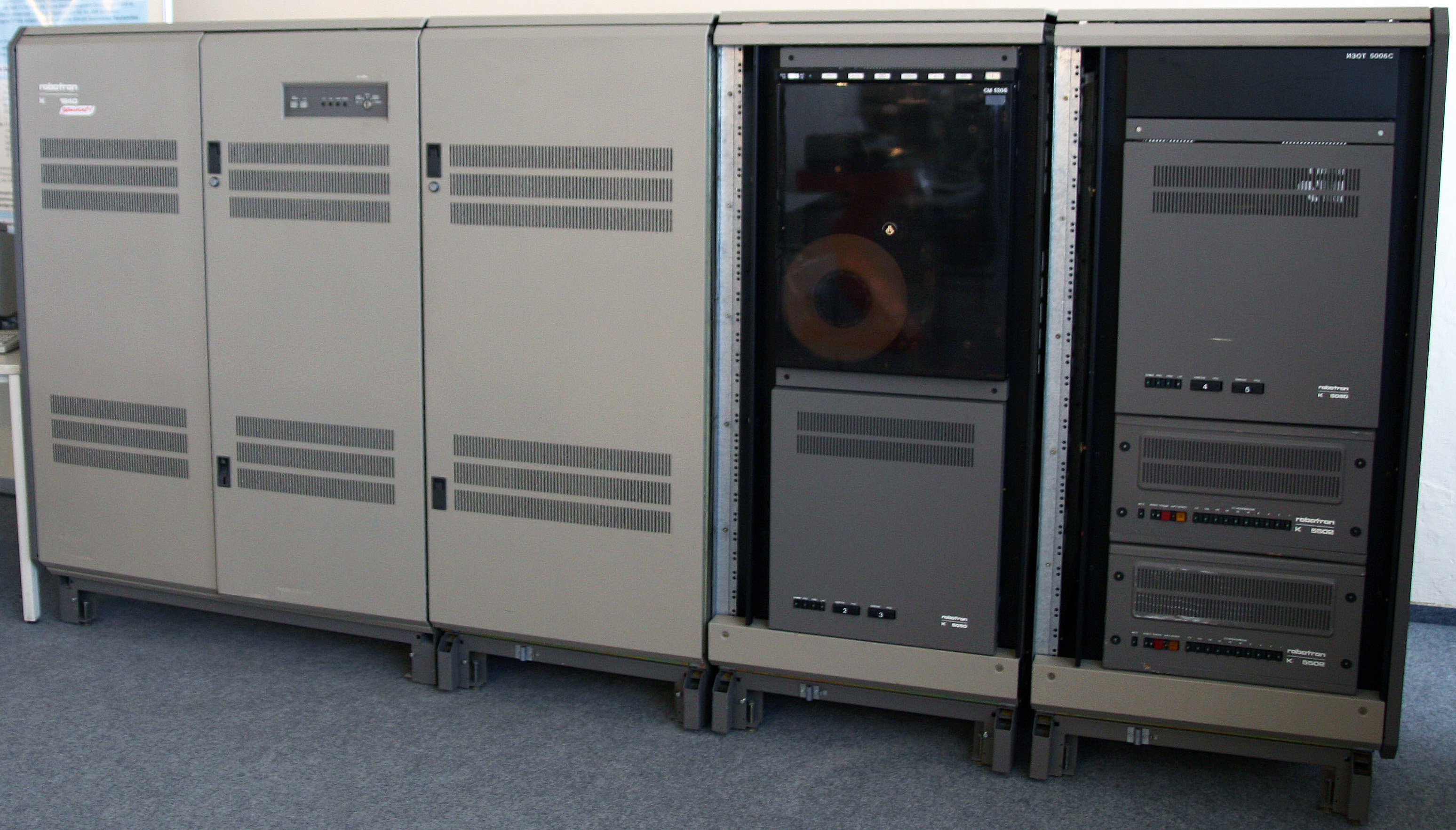 Robotron RVS K1840 32-Bit Superminicomputer from GDR (East Germany), 1988, DEC VAX 11/780 Clone, recorded in the Technical Collections Dresden